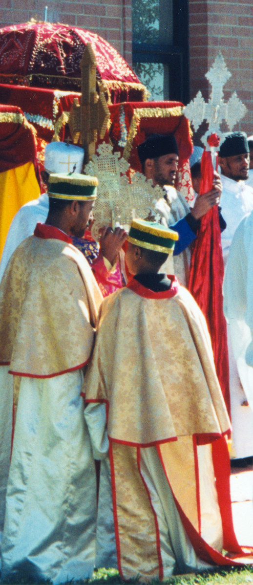 Ethiopian Orthodox clergymen lead a procession in celebration of Saint Michael. During such processions, the clergy carry Ethiopian crosses and ornately covered tabots around the church building's exterior. St. Michael Ethiopian Orthodox Church Garland, Texas November 20, 1999 Photo by Gyrofrog Uploaded to Wikimedia Commons on January 12, 2007 for use by the Wikimedia Foundation and/or its various projects (Wikipedia etc.) For any other use, please give credit to Gyrofrog or Wikimedia Commons.